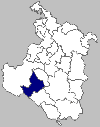 Self-made map of Josipdol municipality within Karlovac County.